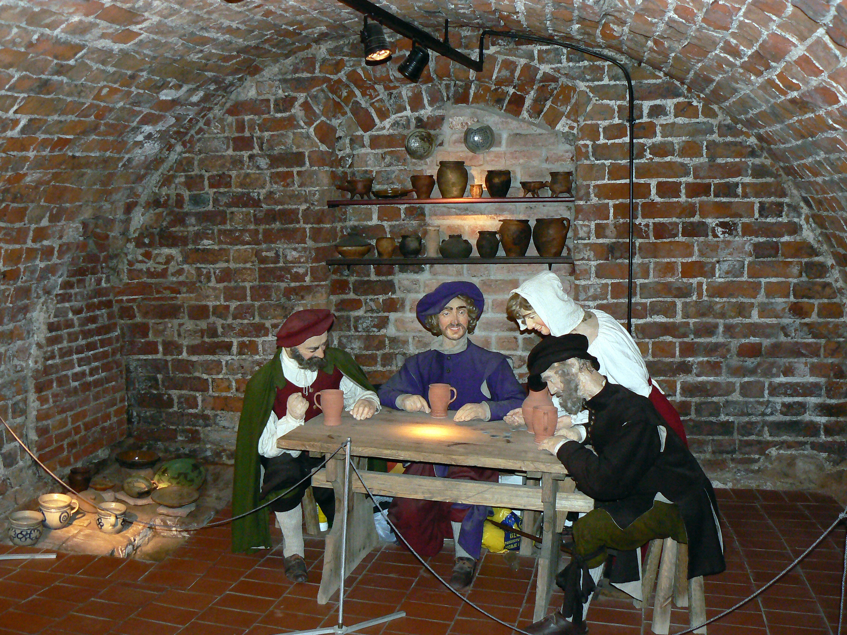 Klaipeda castle museum.